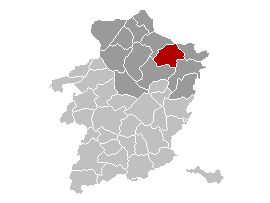 Map, municipality belgium Bree.